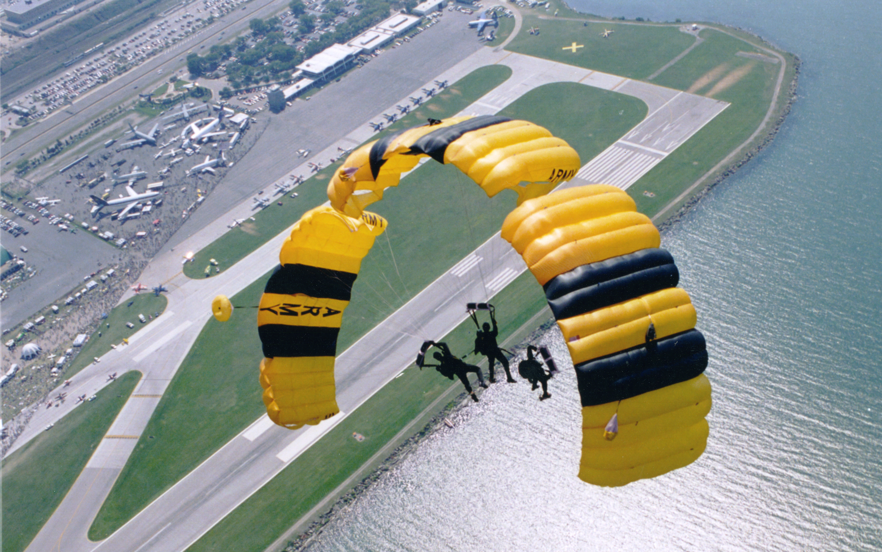 Three members of the US Army Parachute team Golden Knights parachuting down towards Cleveland International Airshow in 2001, linked together via "pro-straps" in a tri-by-side maneuver. Uploaded by: Georgewilliamherbert 20:12, 7 June 2006 (UTC)